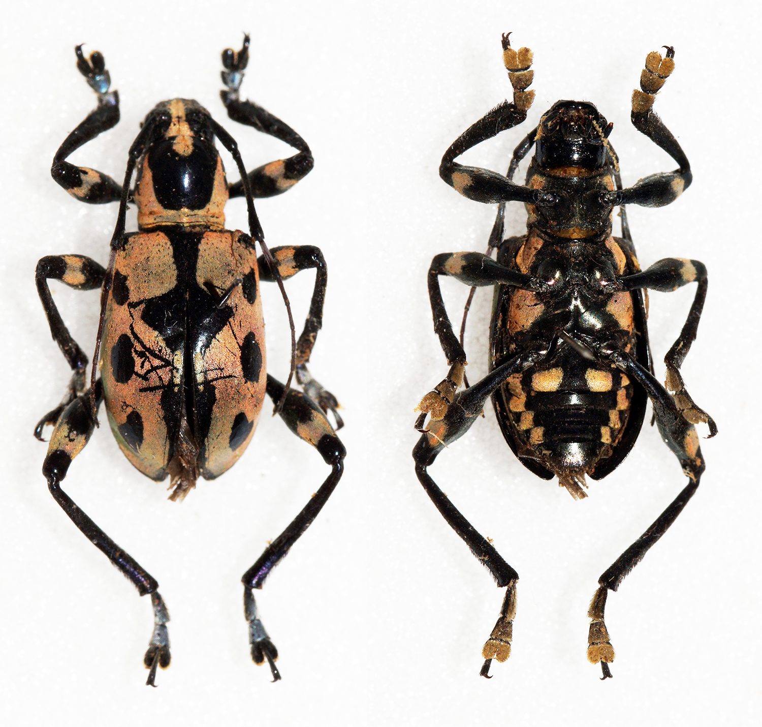 Vives, 2012 Sex: Male Data: 04-2014 - Mt.halcon - Mindoro - Philippines Size: 15mm